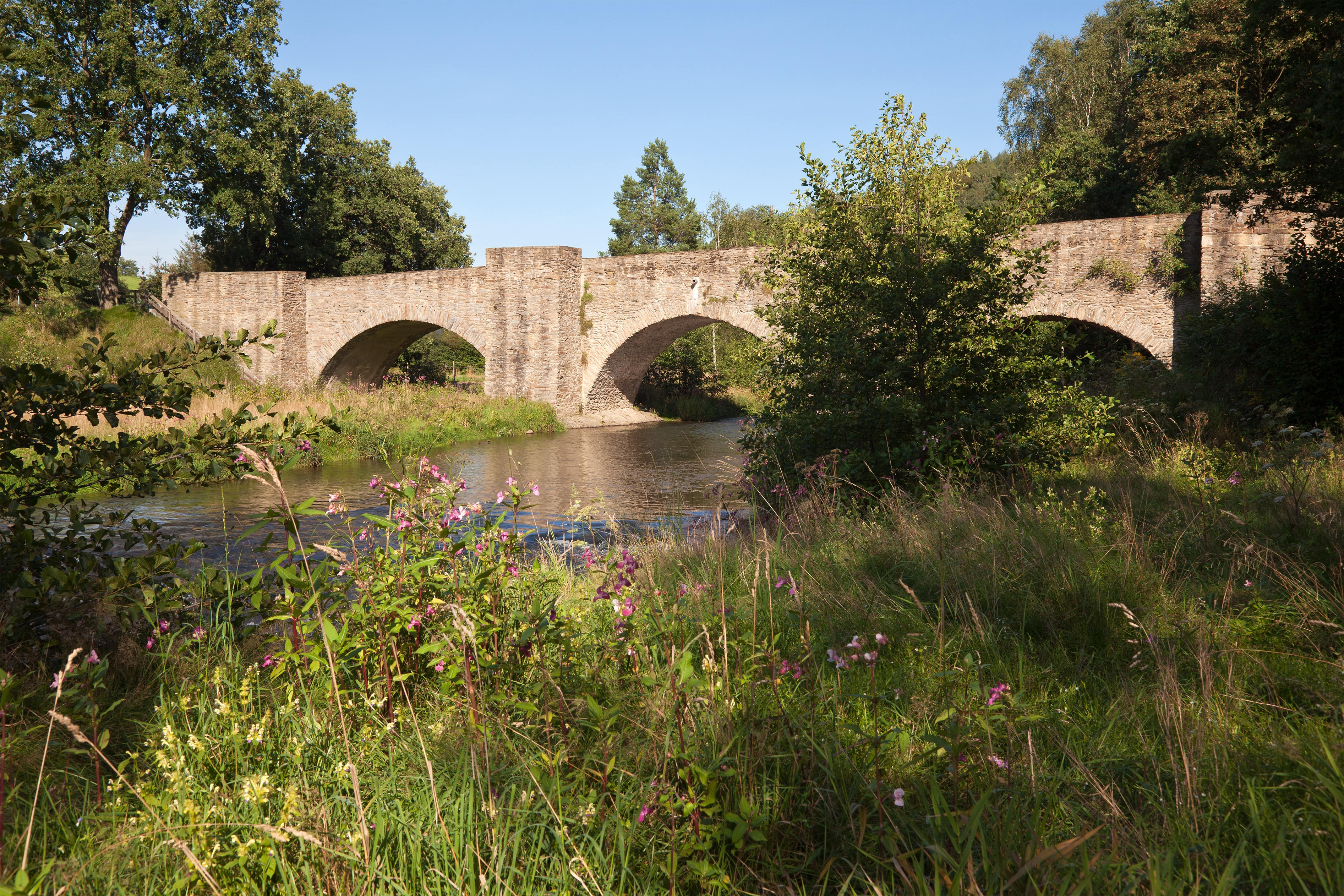 Altväterbrücke, bridge near Halsbrücke, Saxony